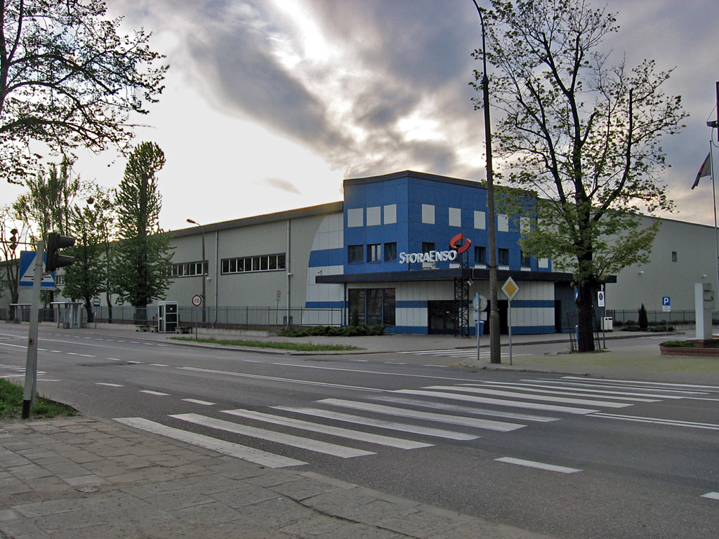 City of Ostroleka (Poland), building of StoraEnso Poland